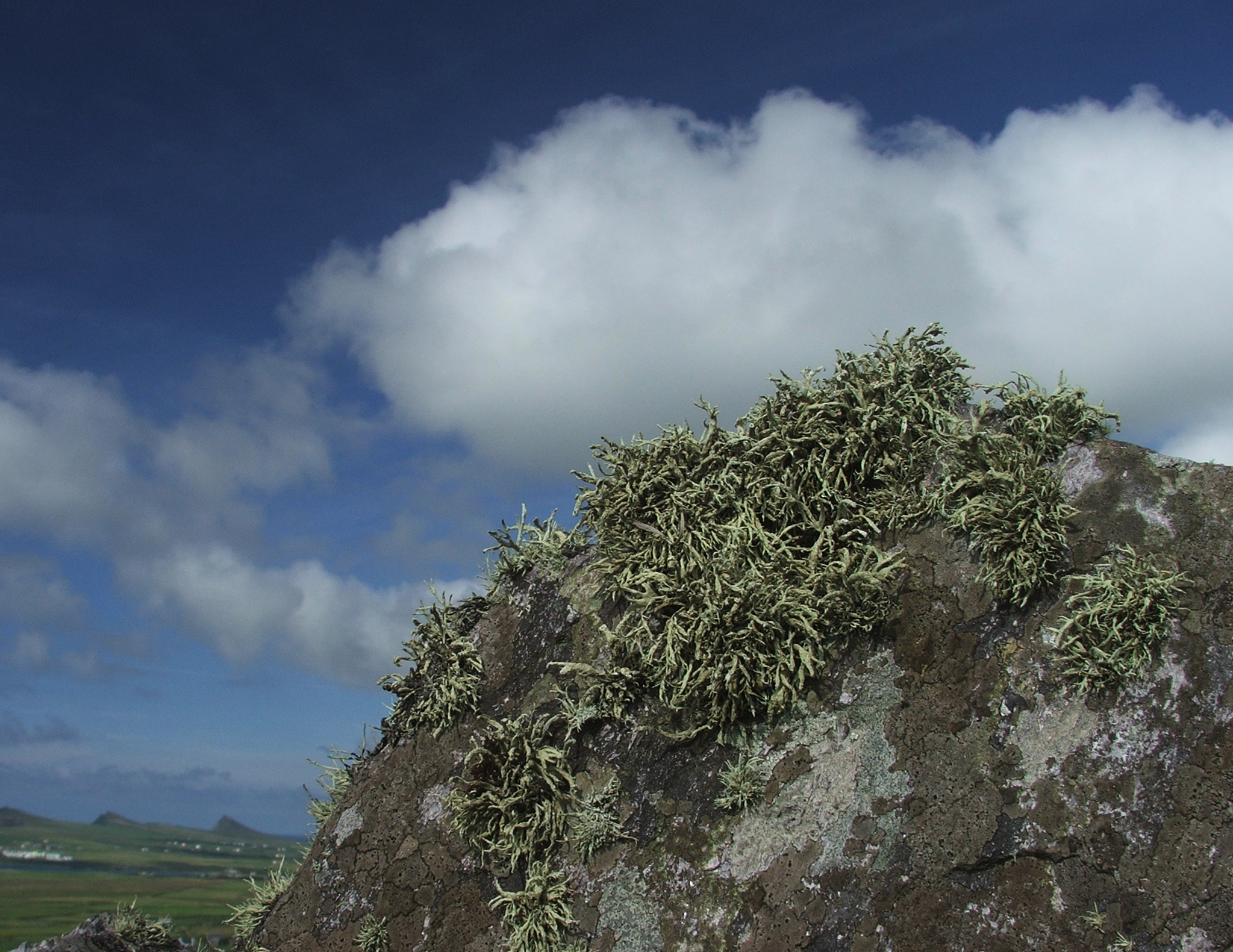 Lichens on a rock near Clogher Head, Dingle North West, Ireland.